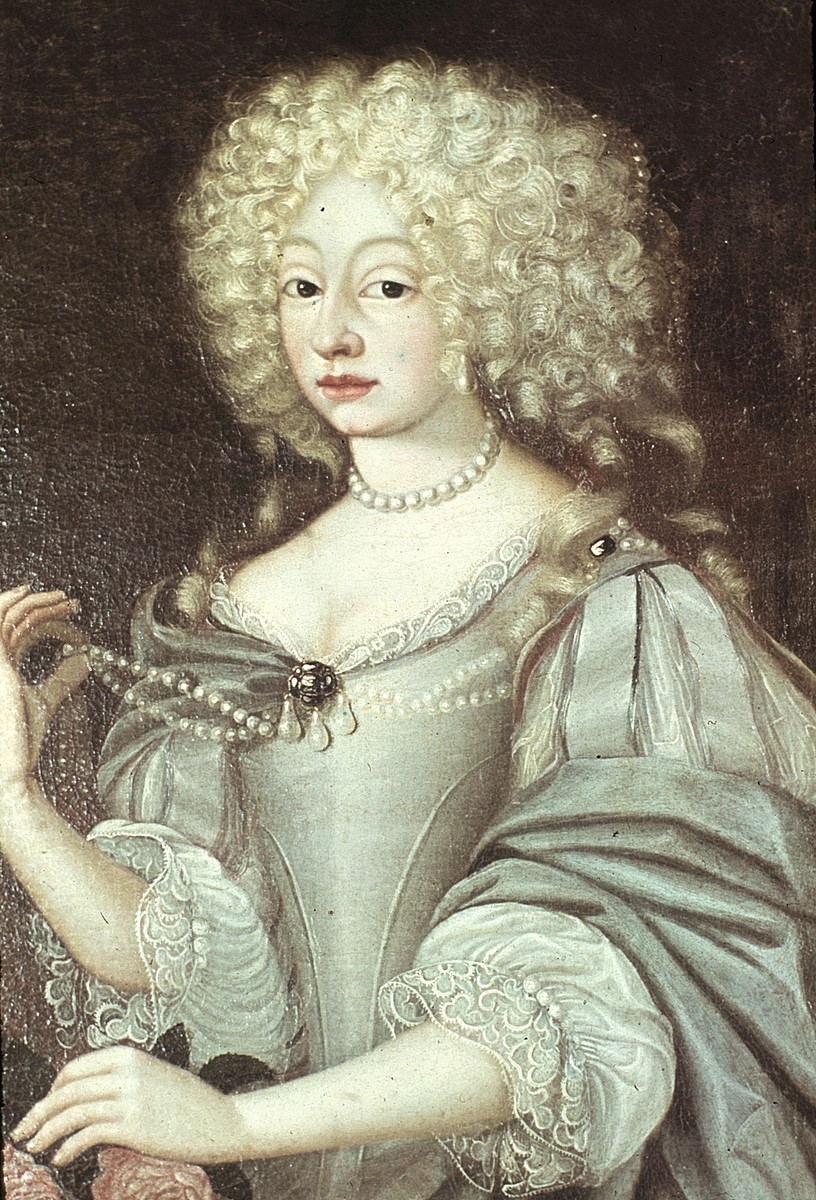 So-called portrait of Dorothea Marie of Saxe-Gotha-Altenburg (1674-1713), Duchess of Saxe-Meiningen